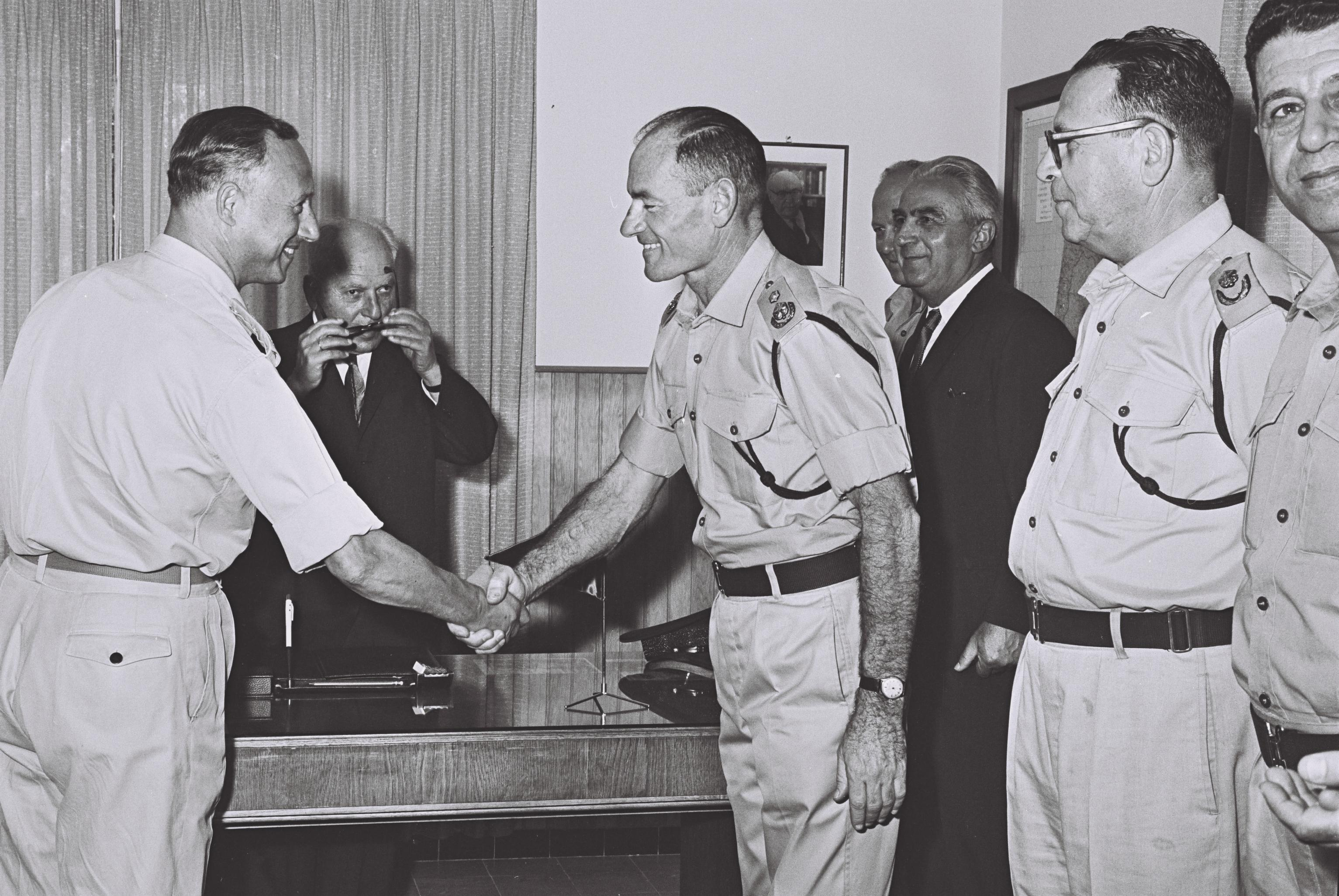 THE OUTGOING POLICE COMMANDER JOSEPH NACHMIAS (L) CONGRATULATING THE NEW INSPECTOR GENERAL OF POLICE PINCHAS KOPPEL DURING CHANGE OF COMMAND CEREMONY AT HAKIRYA.